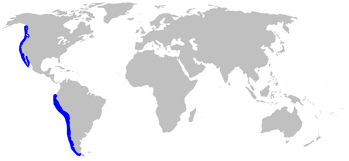 Distribution map for Squatina californica